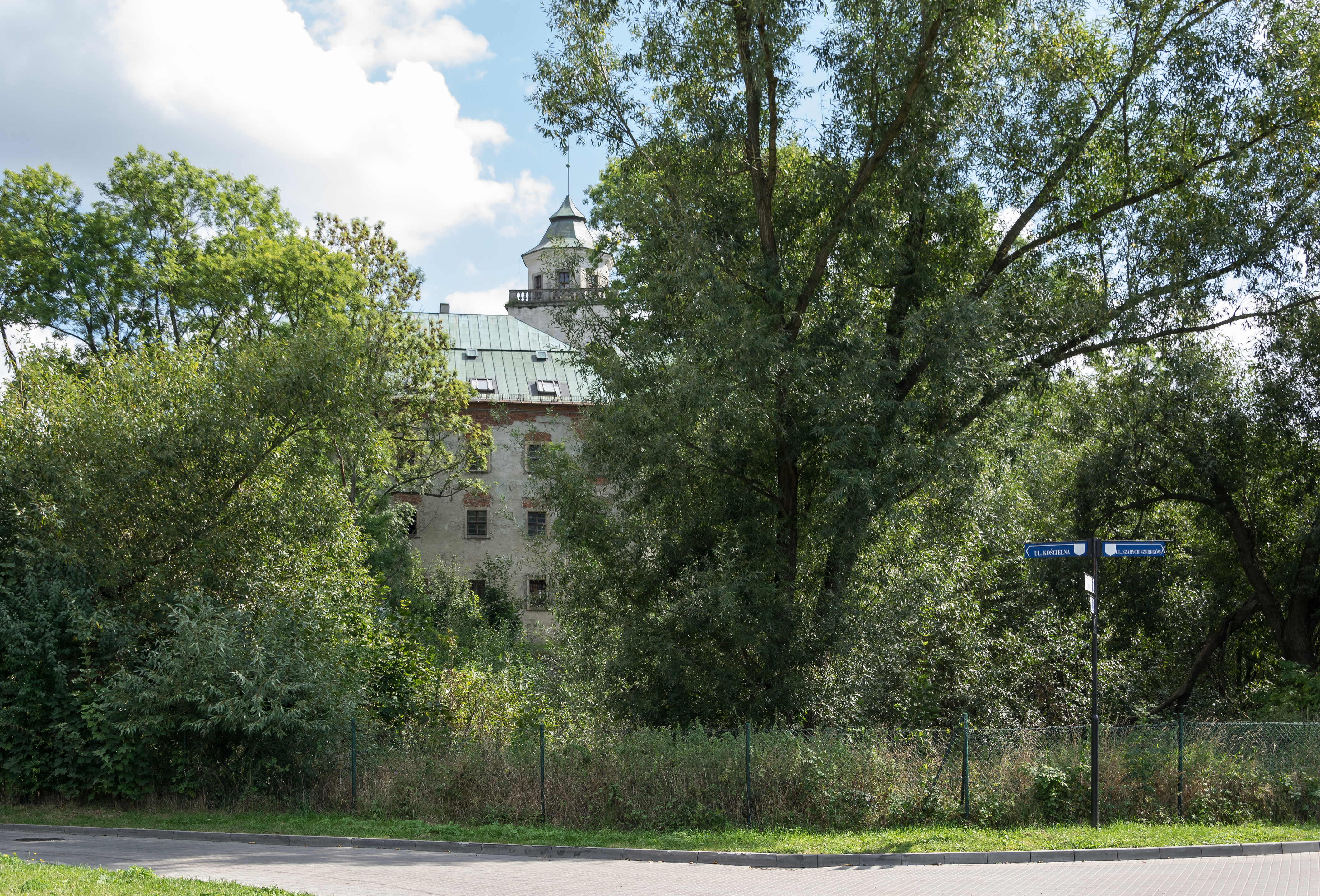 Park in Międzylesie Wikidata has entry Q30048925 with data related to this item.